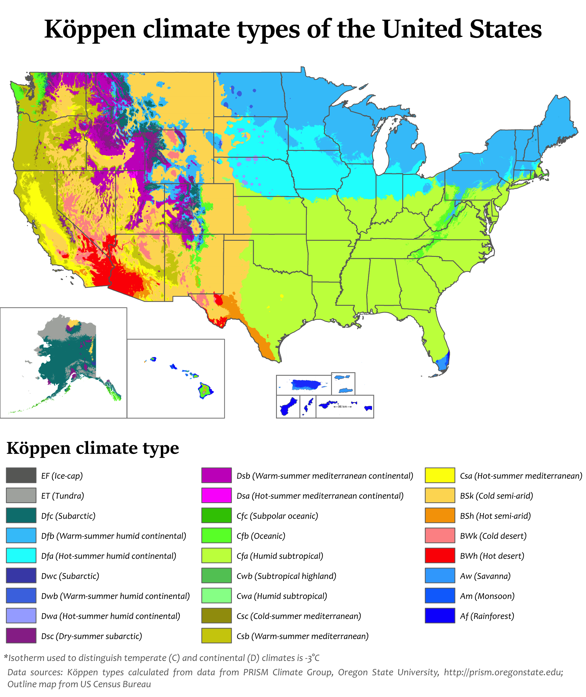 Köppen climates of the United States (50 U.S. states, District of Columbia, and 5 inhabited U.S. territories)